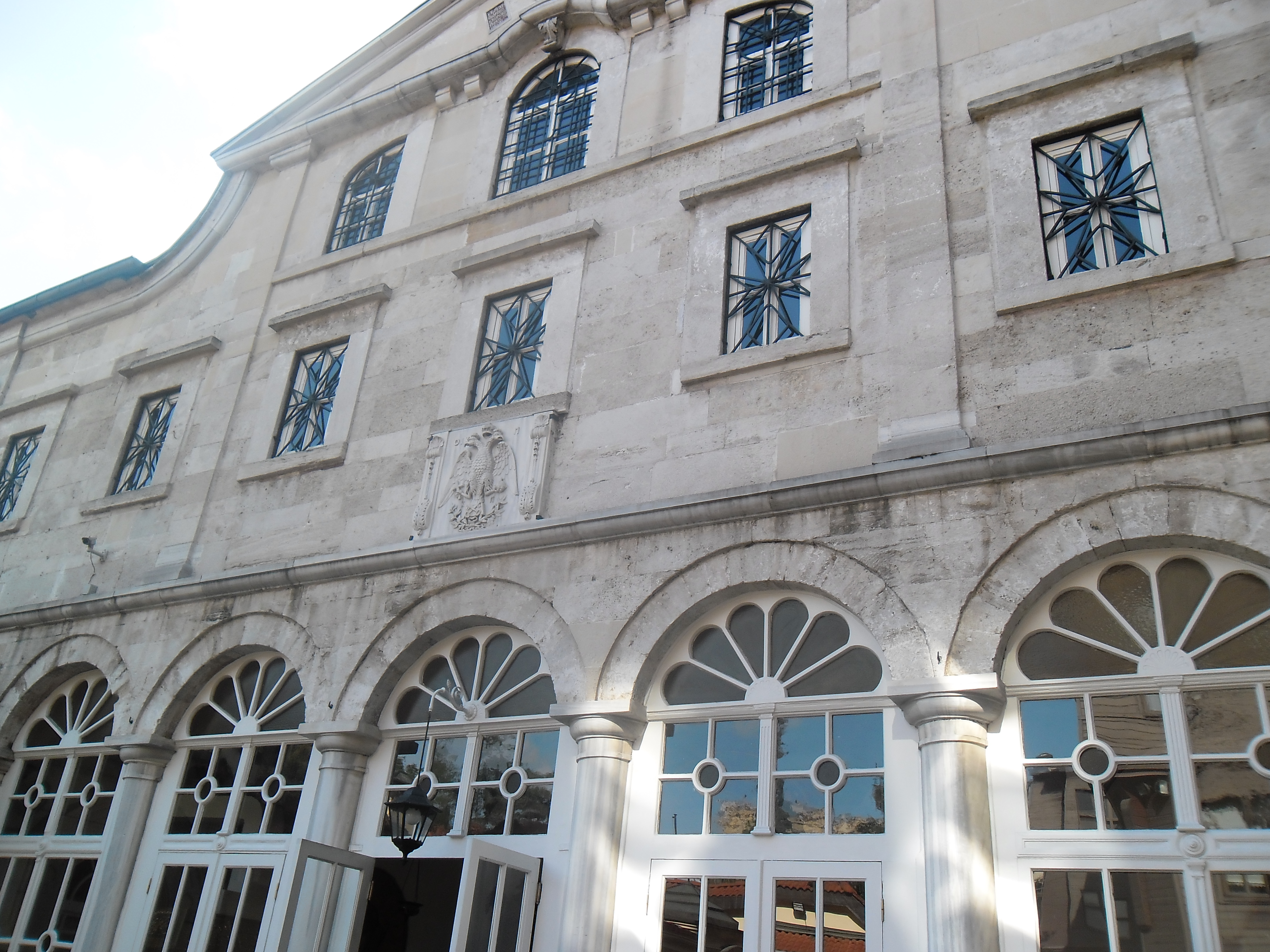 Seat of the Ecumenical Patriarchate of Constantinople.